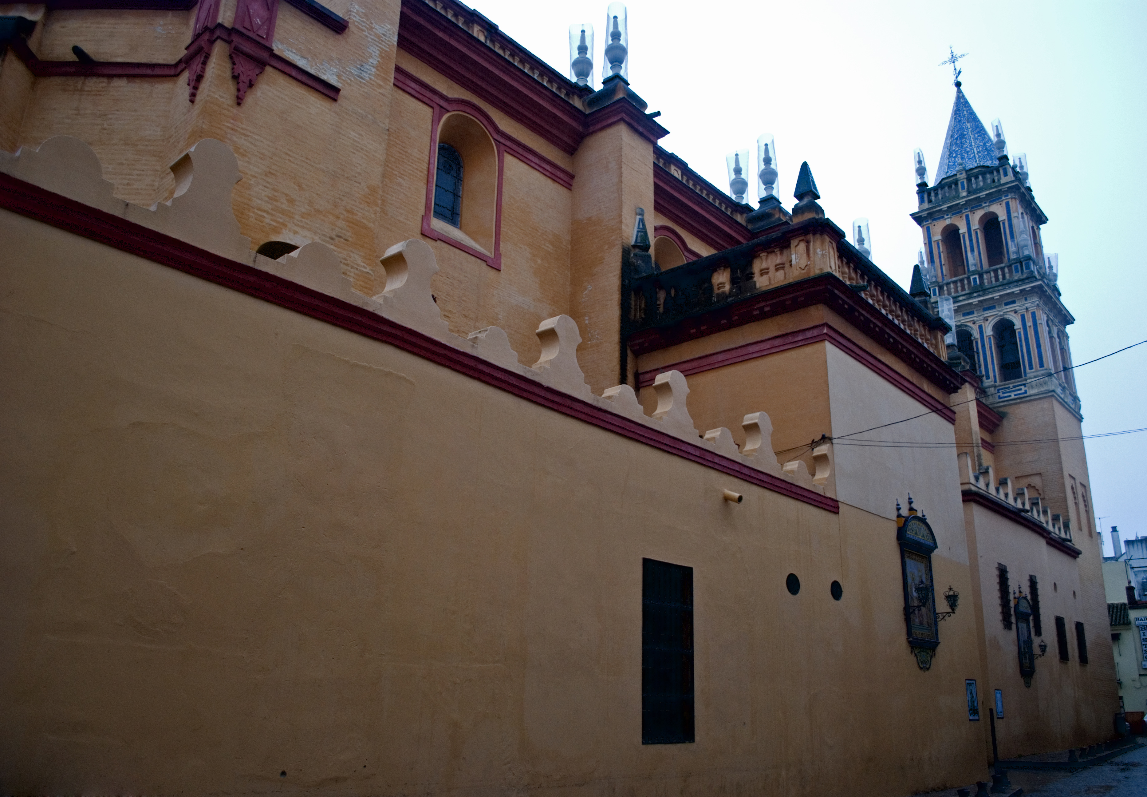 Church of Santa Ana (Triana), Seville